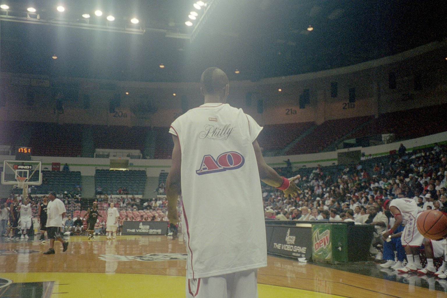 Aaron Owens